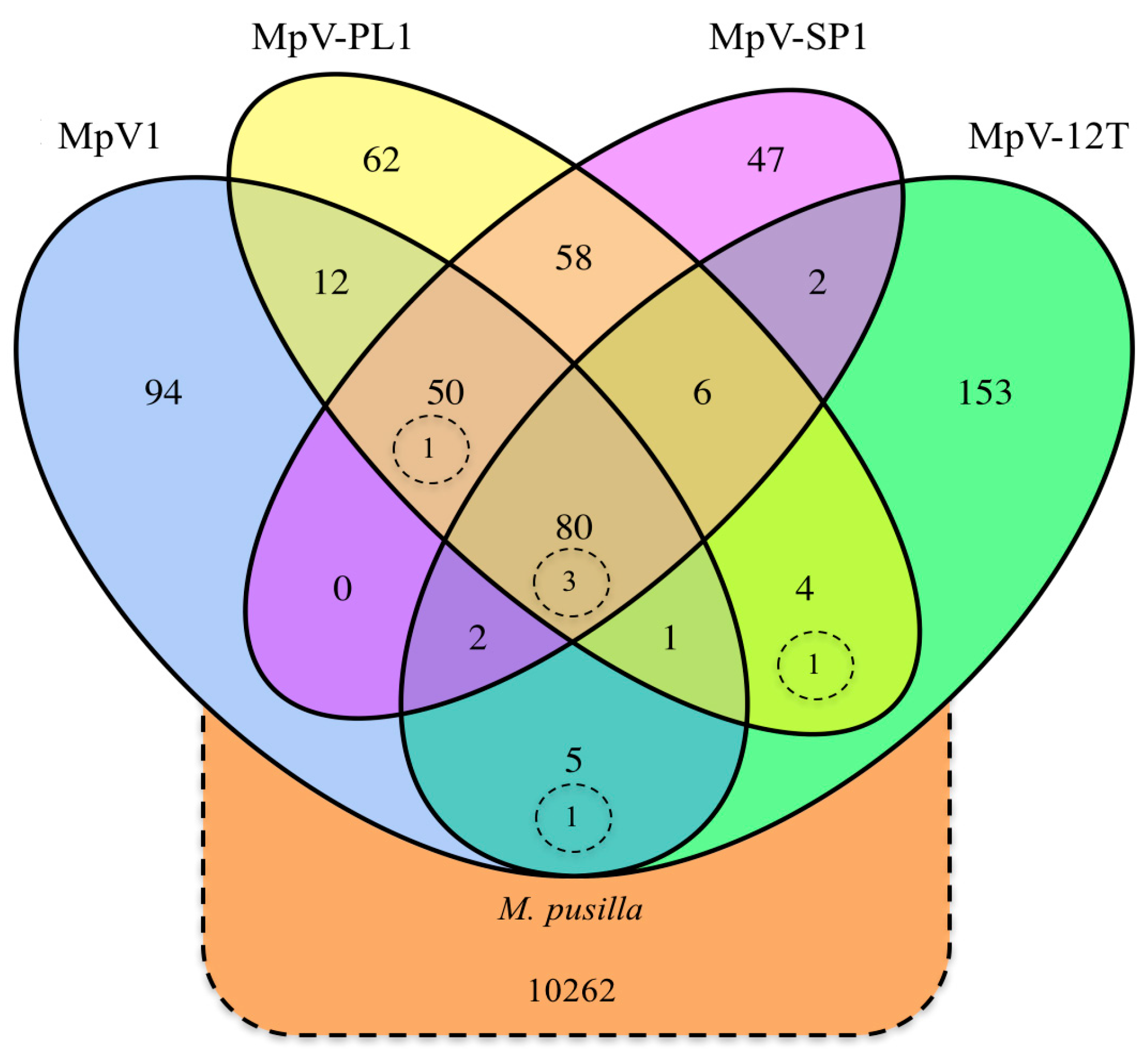 Venn diagram of shared coding sequences (CDS) of four MpVs and M. pusilla UTEX LB991, based on clusters by 0.5 amino acid identity. Dashed circles represent host genes shared with viruses (Finke JF, Winget DM, Chan AM, Suttle CA. 2017. Variation in the genetic repertoire of viruses Infecting Micromonas pusilla reflects horizontal gene transfer and links to their environmental distribution; Viruses 9:116. (This article is an open access article distributed under the terms and conditions of the Creative Commons Attribution (CC BY) license (